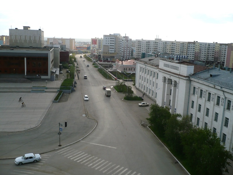 Yakutsk – View of the city from the Geological Institute collections area